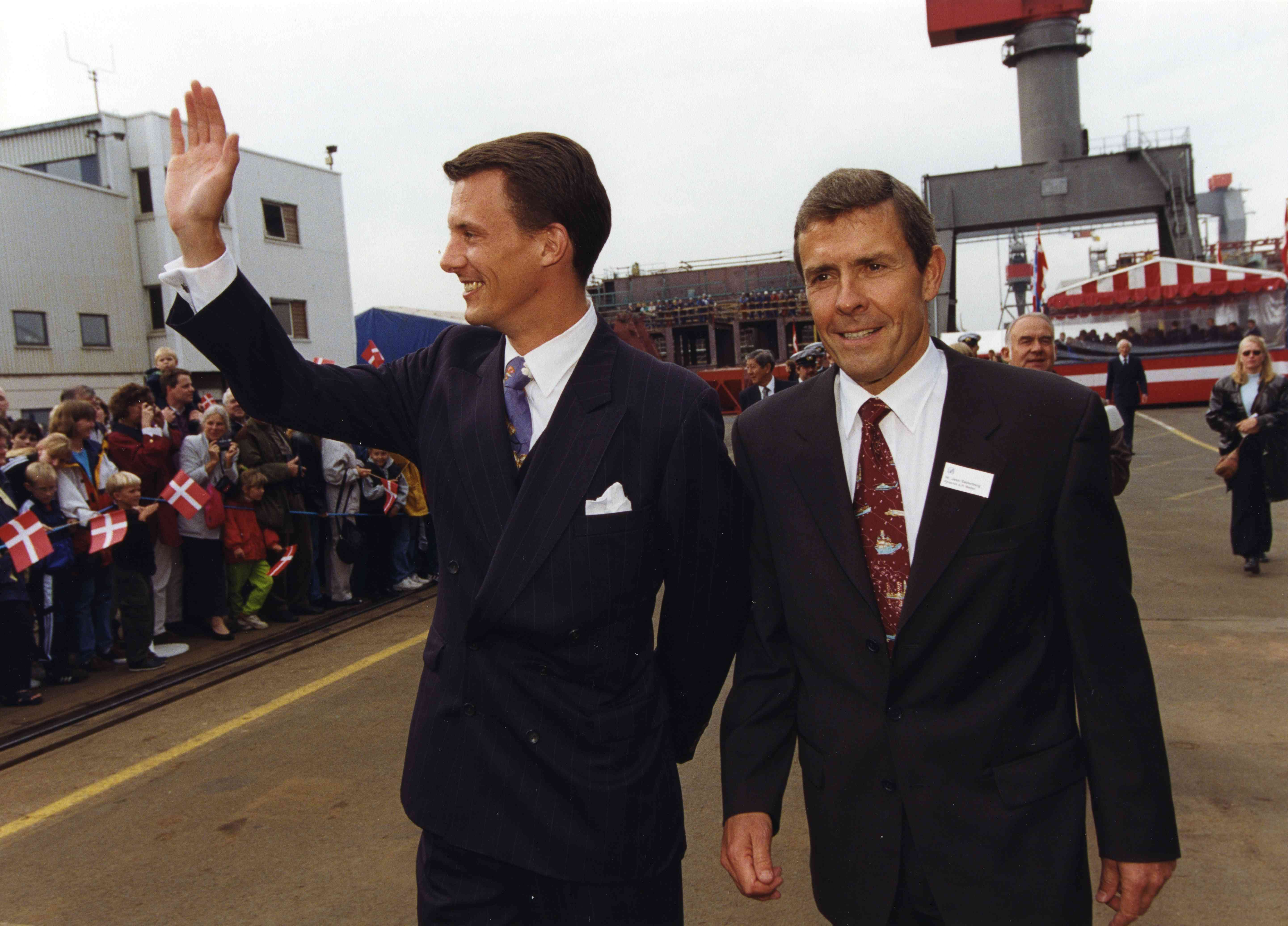 At the inauguration of Svendborg Mærsk (1998)